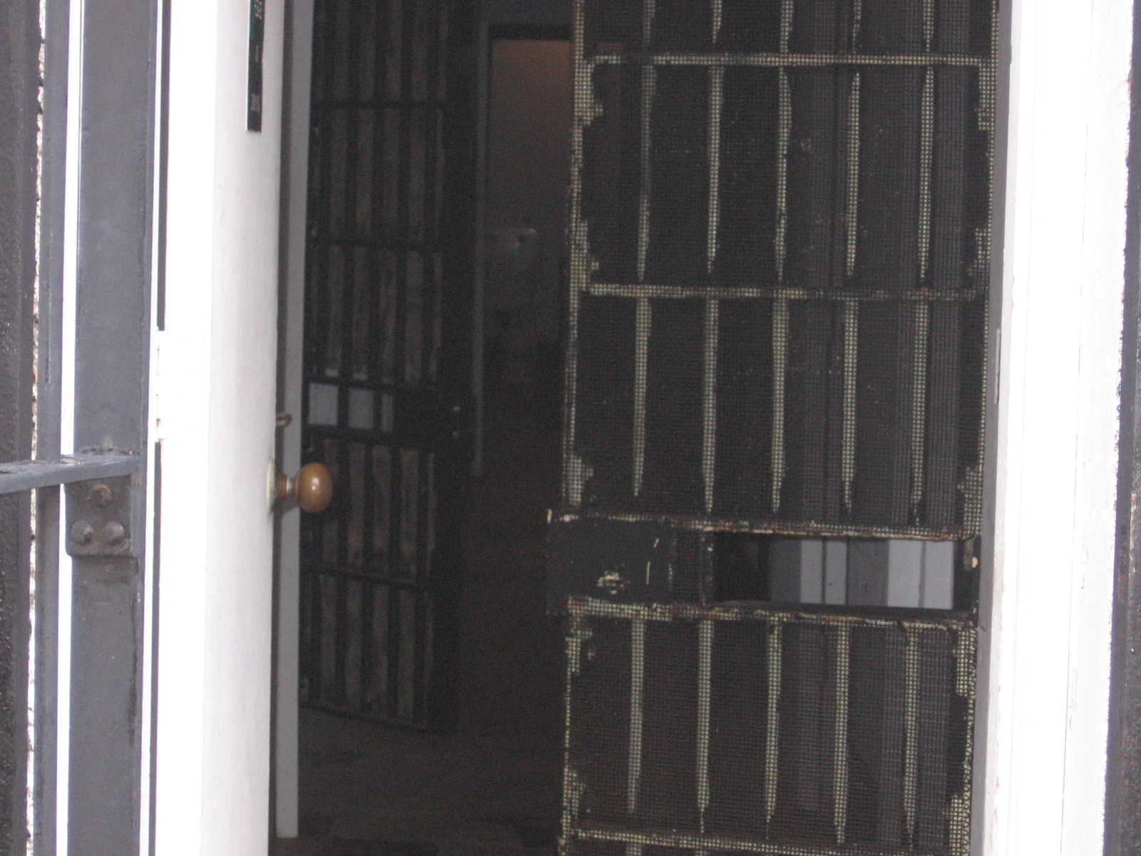 A view of the door to a maximum security cell in the Old Montana Prison, displaying the screen on the outside of the bars to protect guards from the sloshing of the "honey bucket"